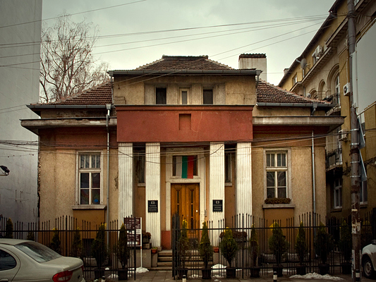 Bulgarian National Film Archive, head office building